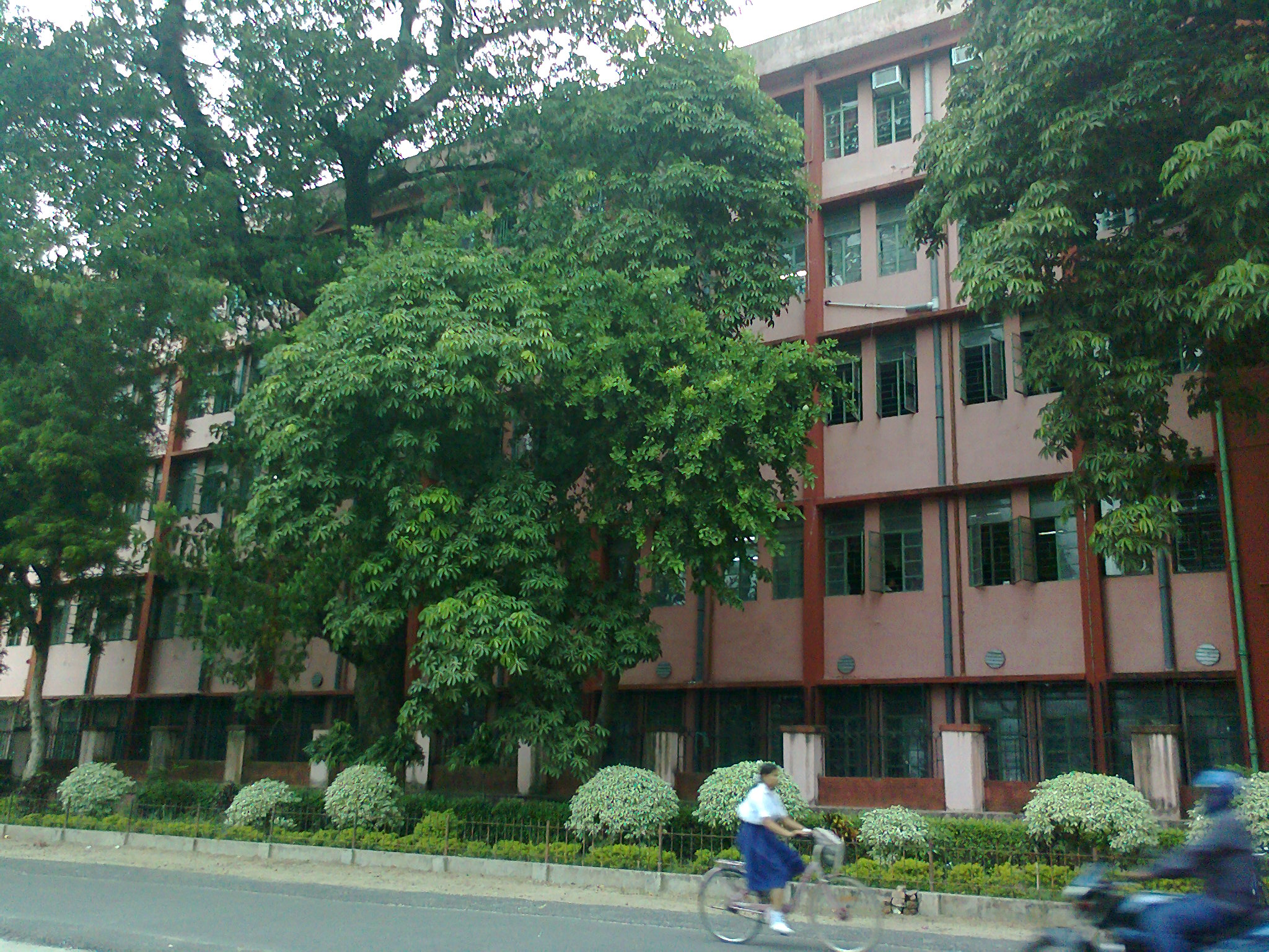 The main building of Chandernagore Govt. College